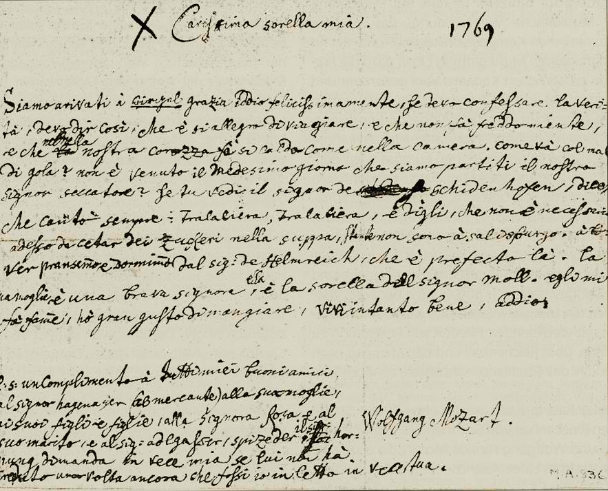 A letter of Wolfgang Amadeus Mozart, written in Wörgl, where he stayed overnight with his father Leopold Mozart